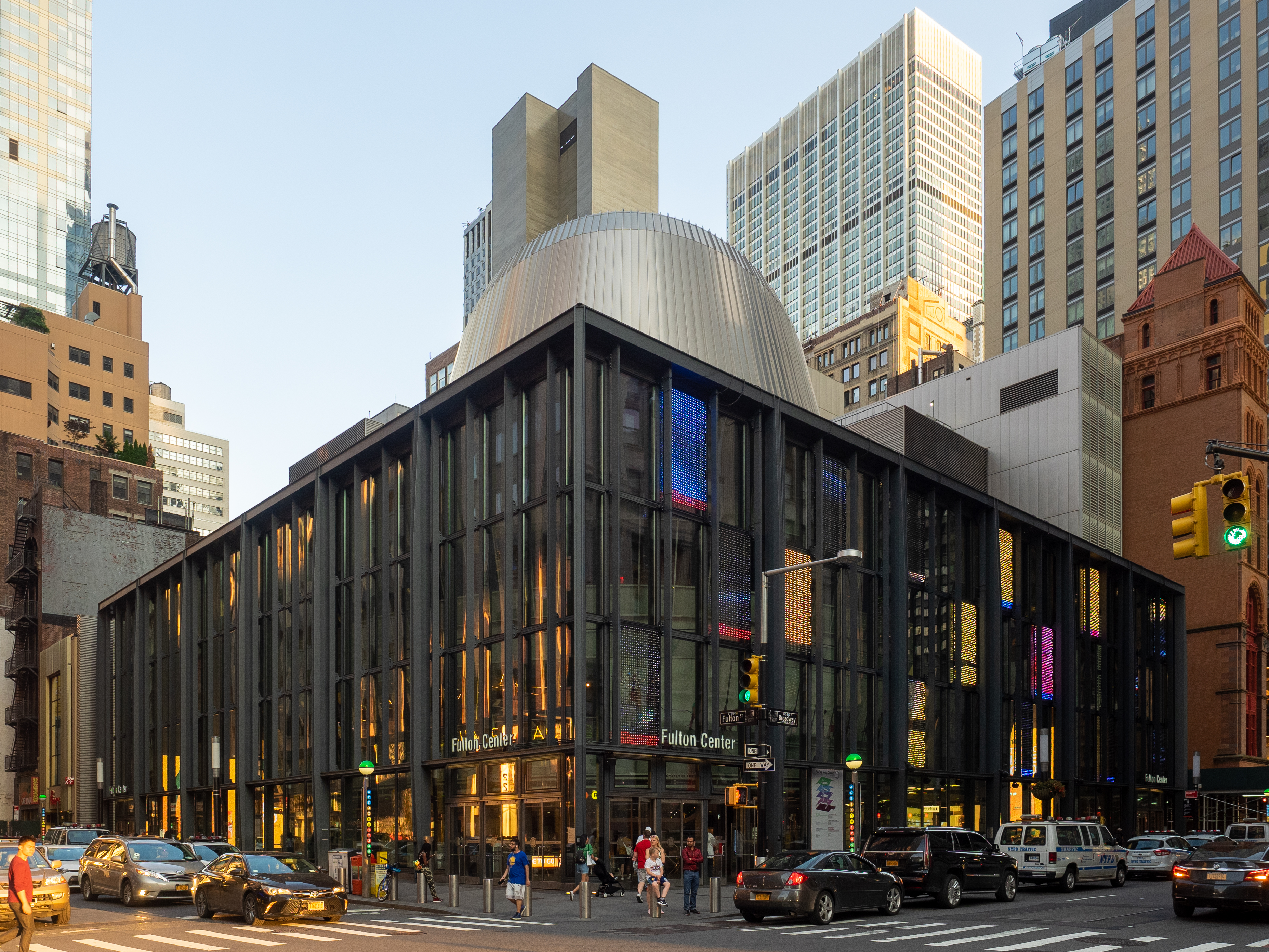 Financial District, NYC